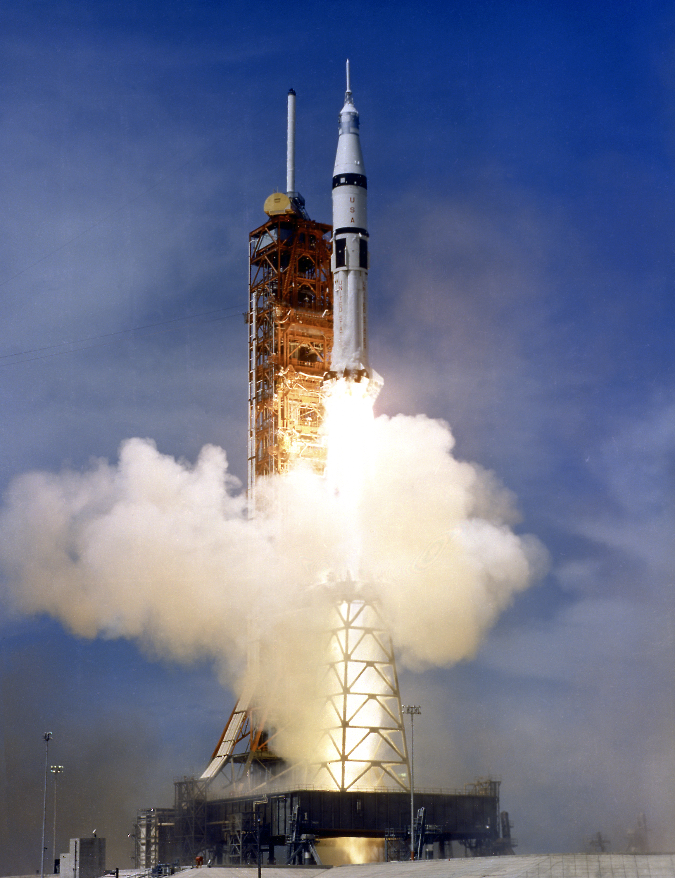 This photo depicts the liftoff of the Saturn IB launch vehicle (SA-210), for the Apollo/Soyuz Test Project (ASTP) mission, from the Launch Complex 39B, Kennedy Space Center. The Apollo-Soyuz Test Project (ASTP) was the first international docking of the U.S.'s Apollo spacecraft and the U.S.S.R.'s Soyuz spacecraft in space. The objective of the ASTP mission was to provide the basis for a standardized international system for docking of manned spacecraft. The Soyuz spacecraft, with Cosmonauts Alexei Leonov and Valeri Kubasov aboard, was launched from the Baikonur Cosmodrome near Tyuratam in the Kazakh, Soviet Socialist Republic, at 8:20 a.m. (EDT) on July 15, 1975. The Apollo spacecraft, with Astronauts Thomas Stafford, Vance Brand, and Donald Slayton aboard, was launched from Launch Complex 39B, Kennedy Space Center, Florida, at 3:50 p.m. (EDT) on July 15, 1975. The Primary objectives of the ASTP were achieved. They performed spacecraft rendezvous, docking and undocking, conducted intervehicular crew transfer, and demonstrated the interaction of U.S. and U.S.S.R. control centers and spacecraft crews. The mission marked the last use of a Saturn launch vehicle. The Marshall Space Flight Center was responsible for development and sustaining engineering of the Saturn IB launch vehicle during the mission.